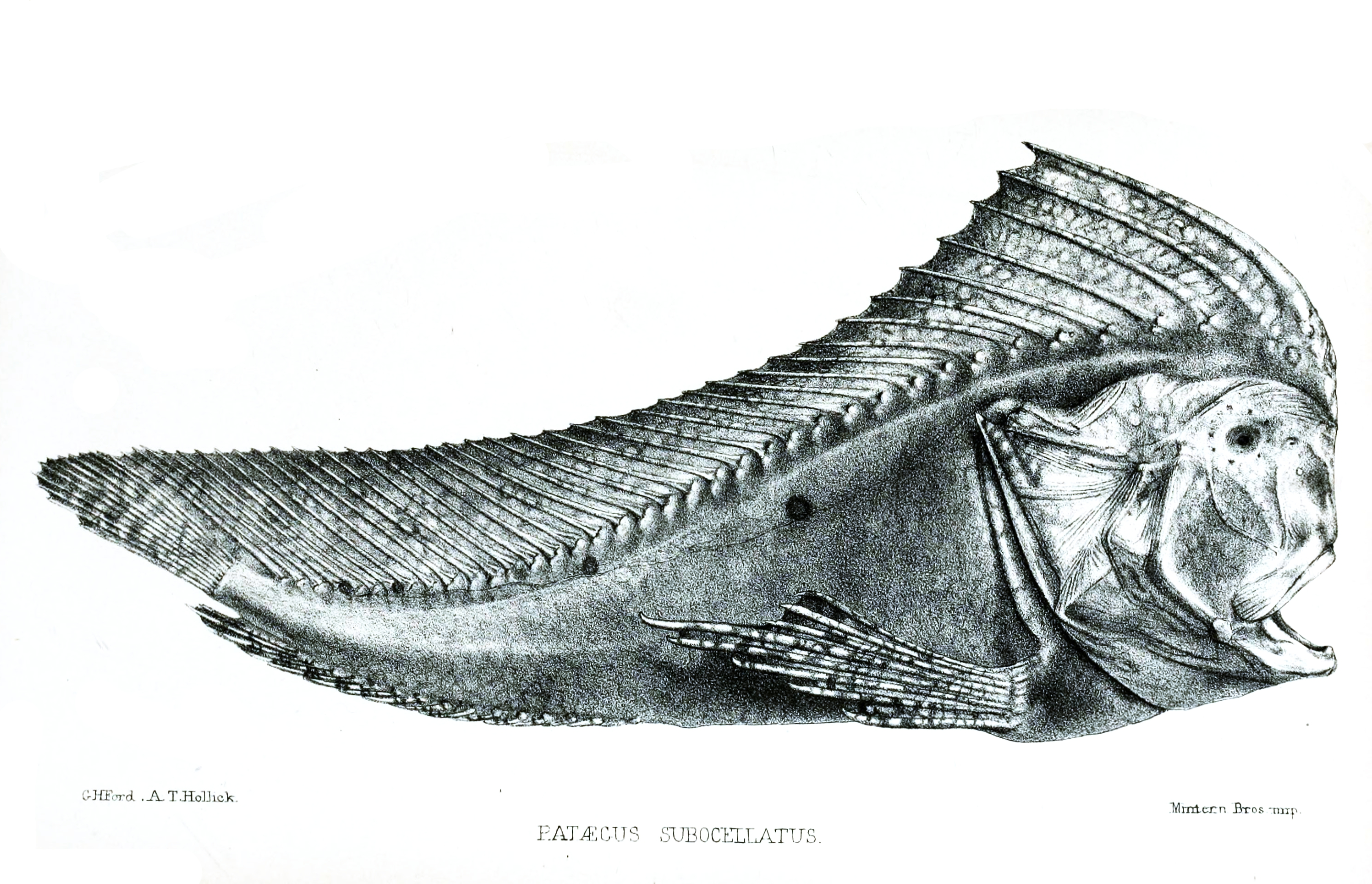 Red Indianfish